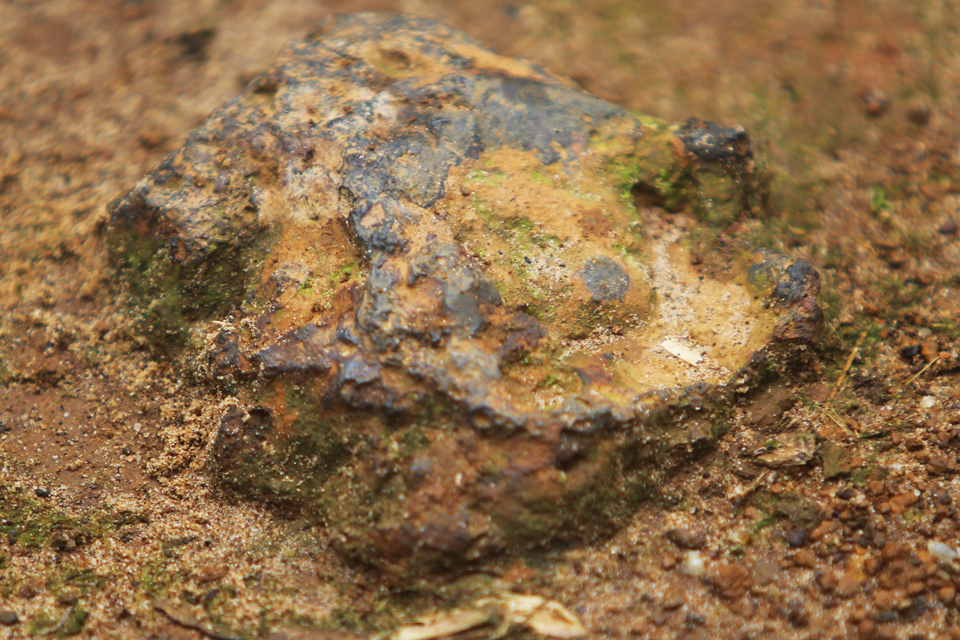 Tamadun Awal Sungai Batu